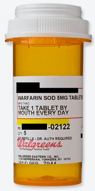 This is a picture of a Walgreens prescription bottle. Personal information about the patient is censored.